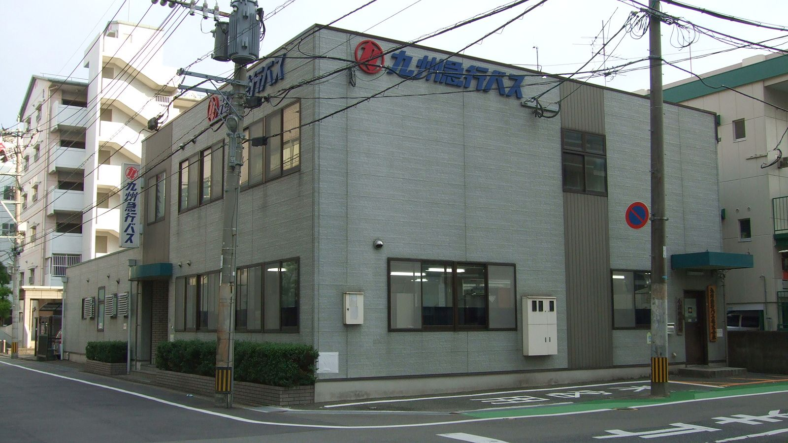 Kyushukyuko Bus headquarters, Hakata Ward, Fukuoka City, Fukuoka, Japan.